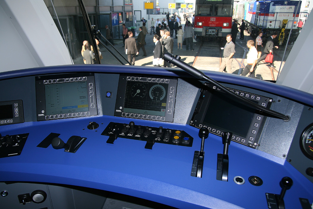 Driver's cab on a modern Deutsche Bahn double-decker car.